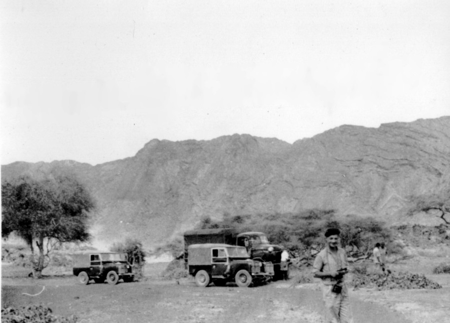 A photograph of Ziad Beydoun in SW Arabia